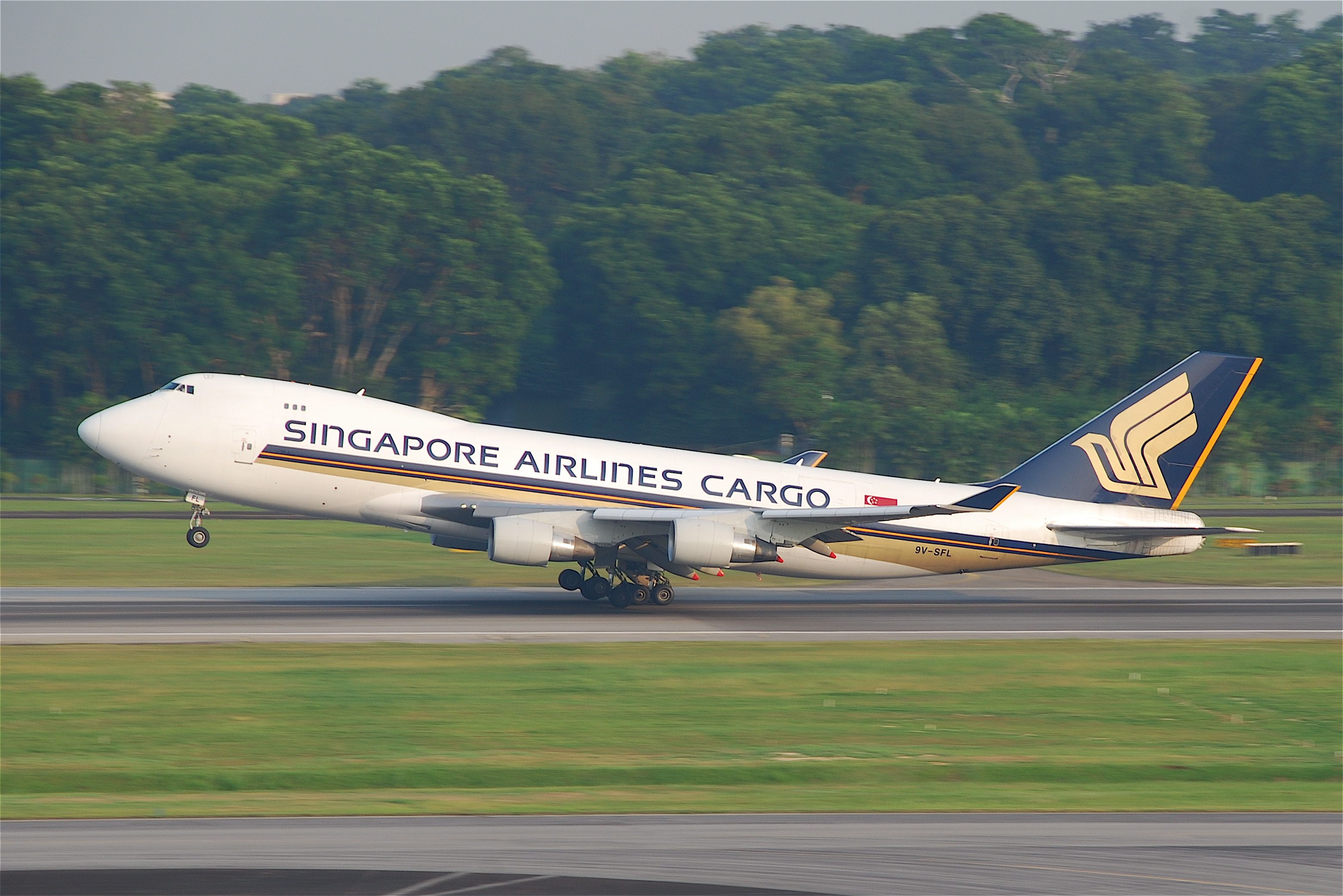 Singapore Airlines Cargo Boeing 747-400F; 9V-SFL@SIN;07.08.2011/617cc